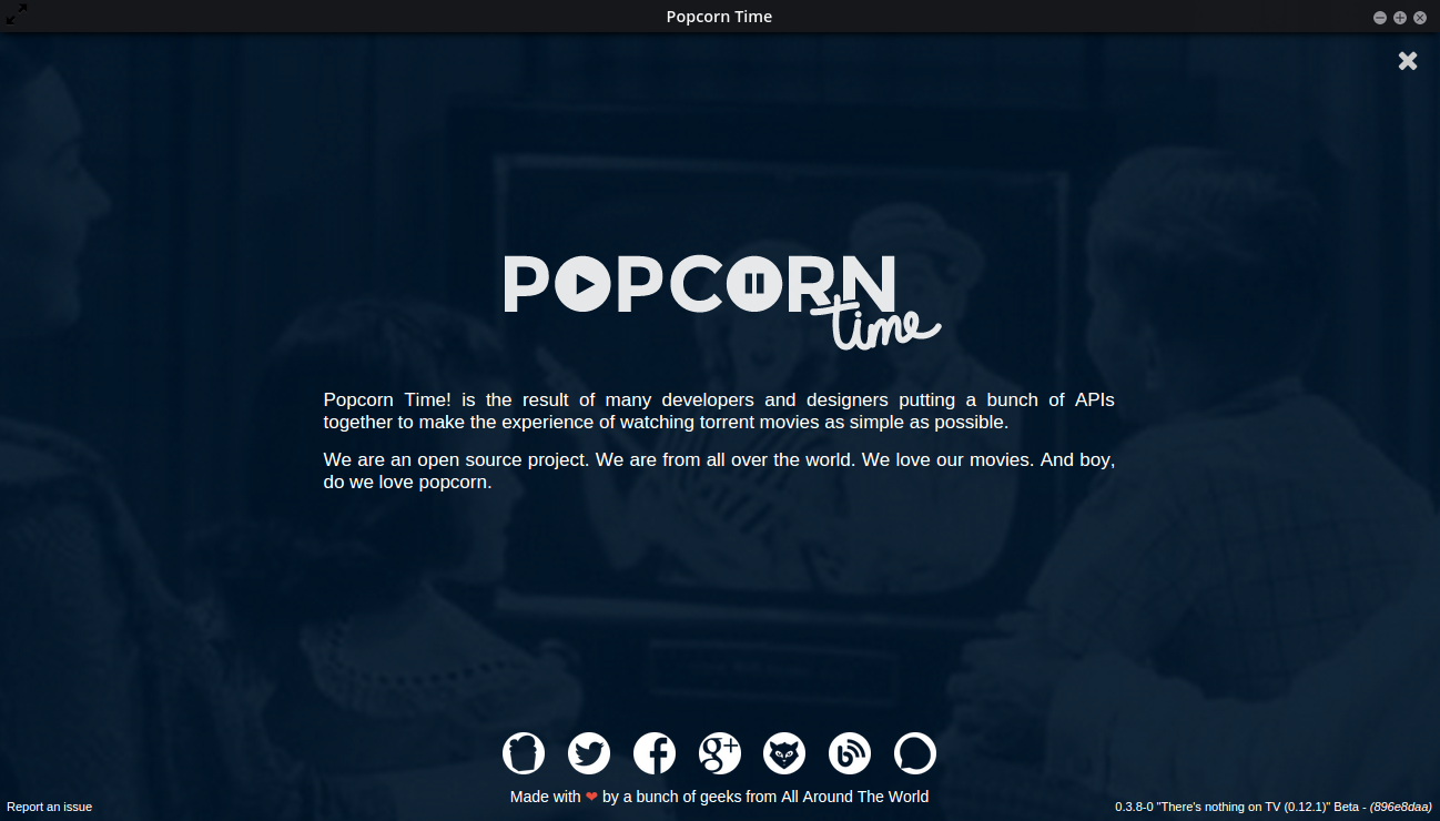 Screenshot of Popcorn Time.